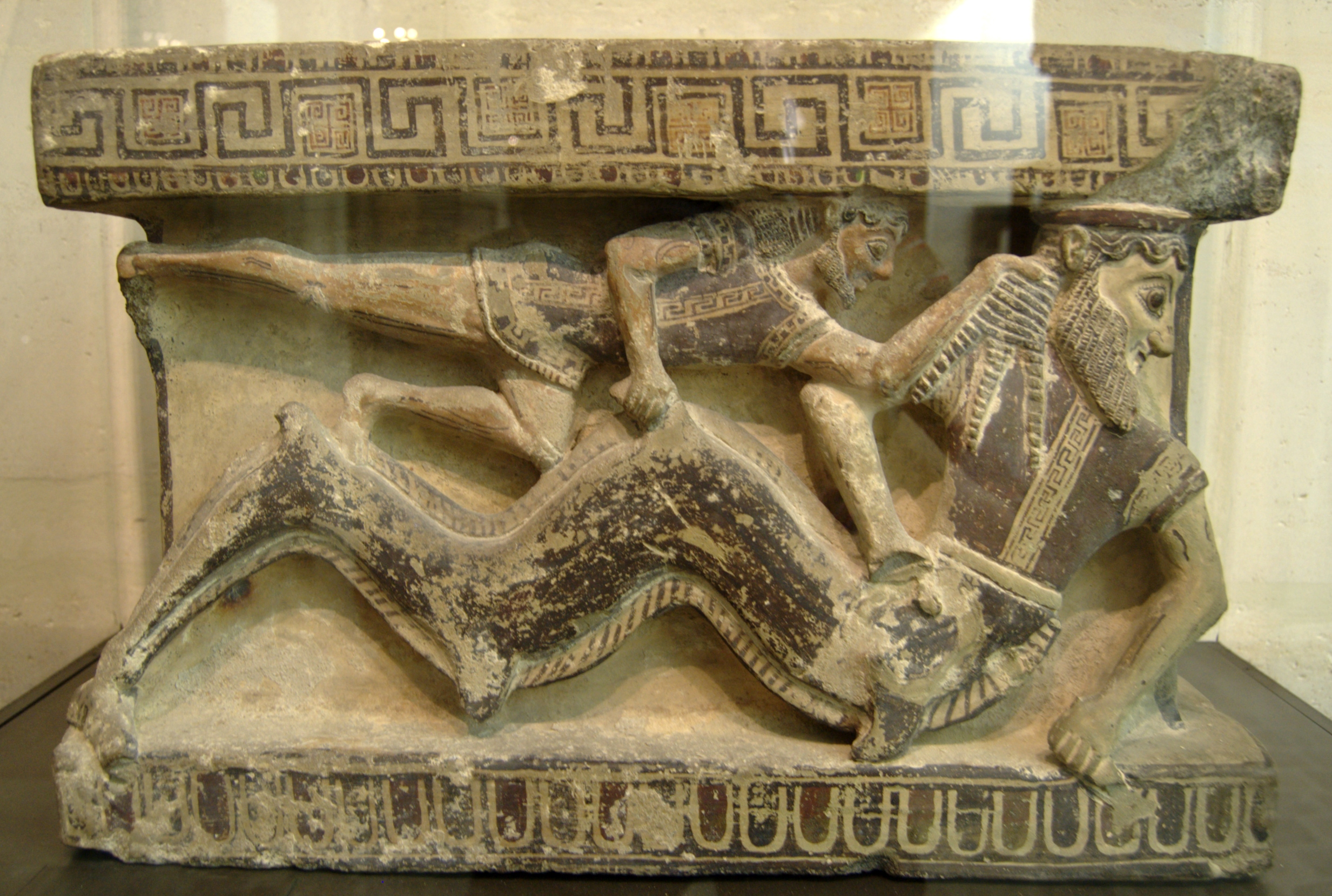 Arula (small altar): polychrome relief showing the fight of Heracles and Triton. From Sicily (Gela?), made in Metaponte (?), third quarter of the 6th century BC.